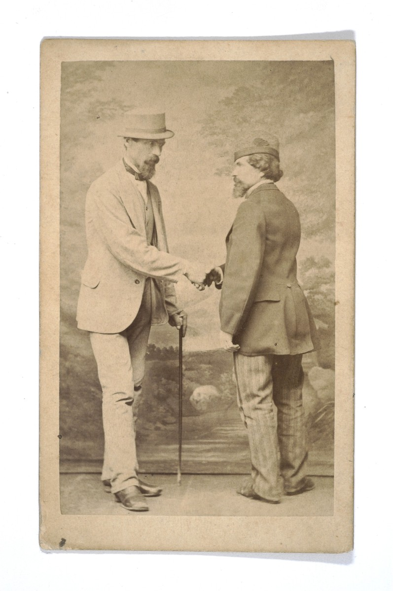 Michał Greim greeting Fortunat Kuryłowski)